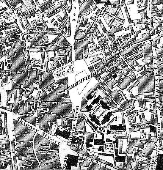 The West Smithfield area at the time of the open air livestock market, in a 1827 map by John Greenwood.